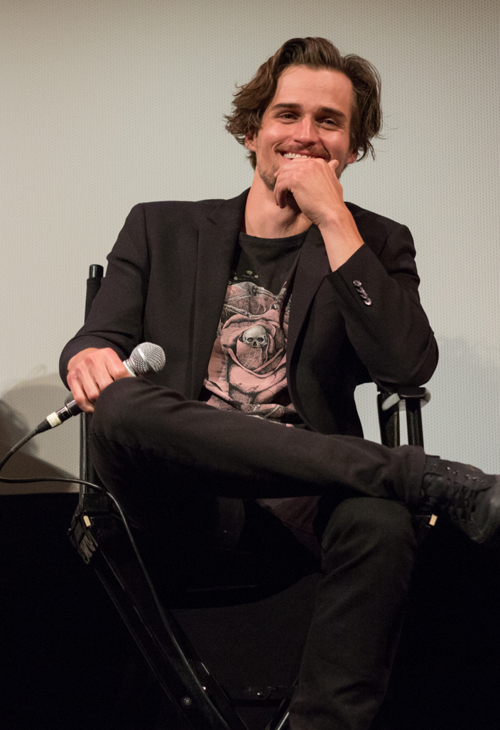 Jon-Michael Ecker at the ATX Television Festival presentation of the TV show "Queen of the South"